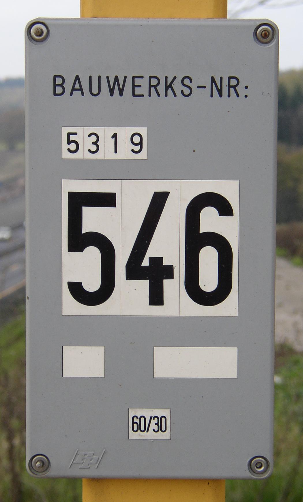 Number of a bridge near Mücke-Atzenhain in Hesse, Germany